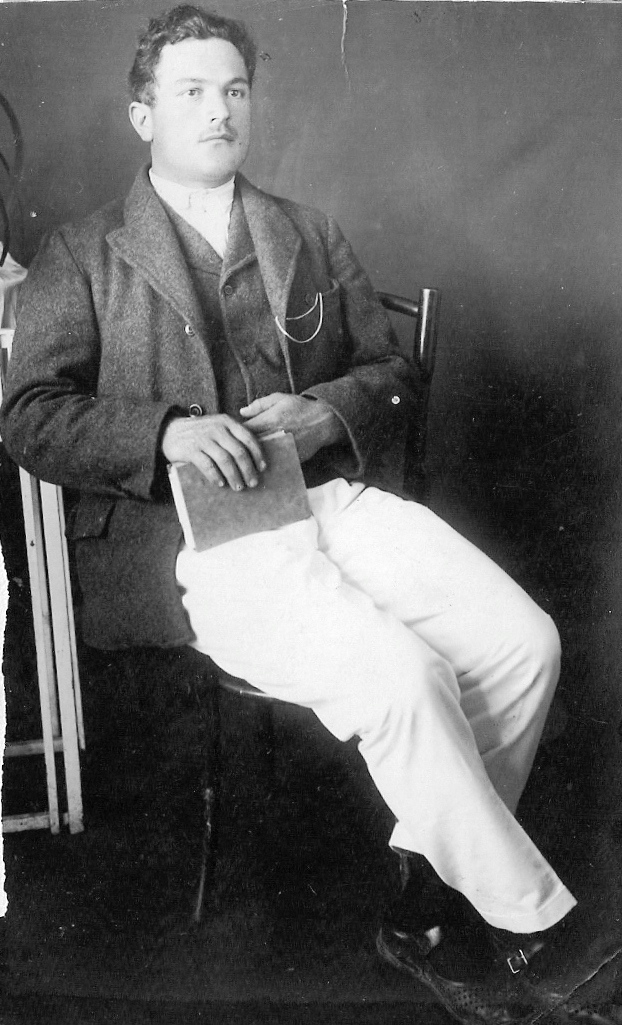 Teodor Şuşman - Romanian anticommunist resistant, Apuseni area.